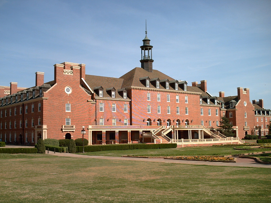 Student Union at Oklahoma State University - Stillwater, the largest student center in the world. Photo taken April 22, 2006.